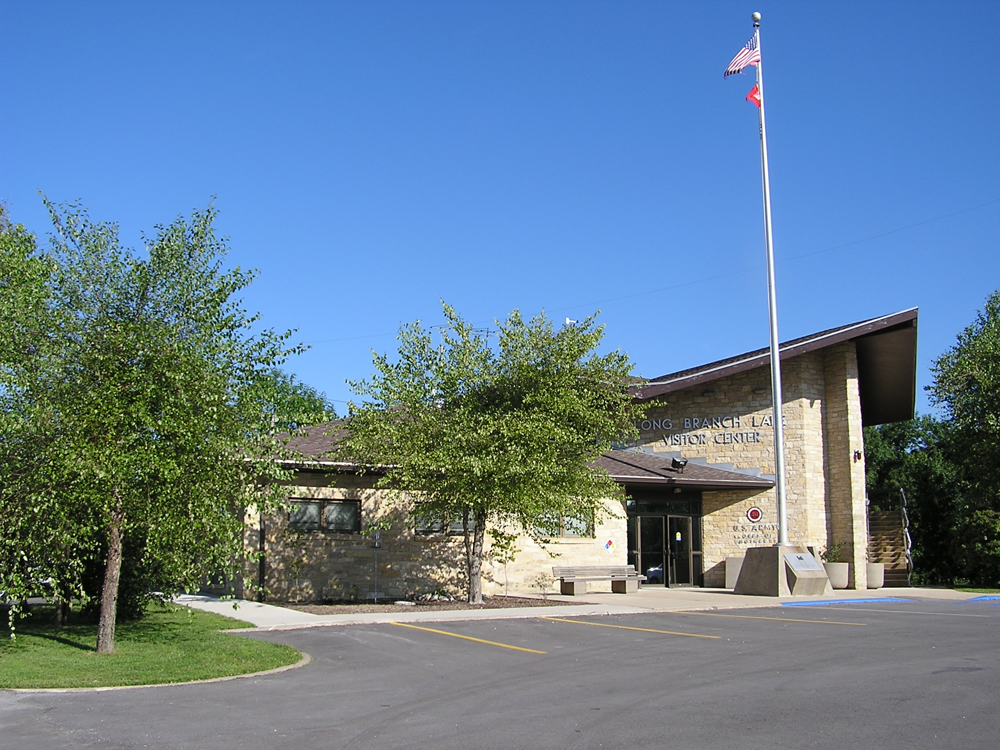 The visitors center near the entrance to Long Branch State Park, 2 miles west of Macon, Missouri